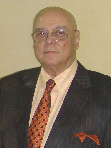 Syed Asif Quadri